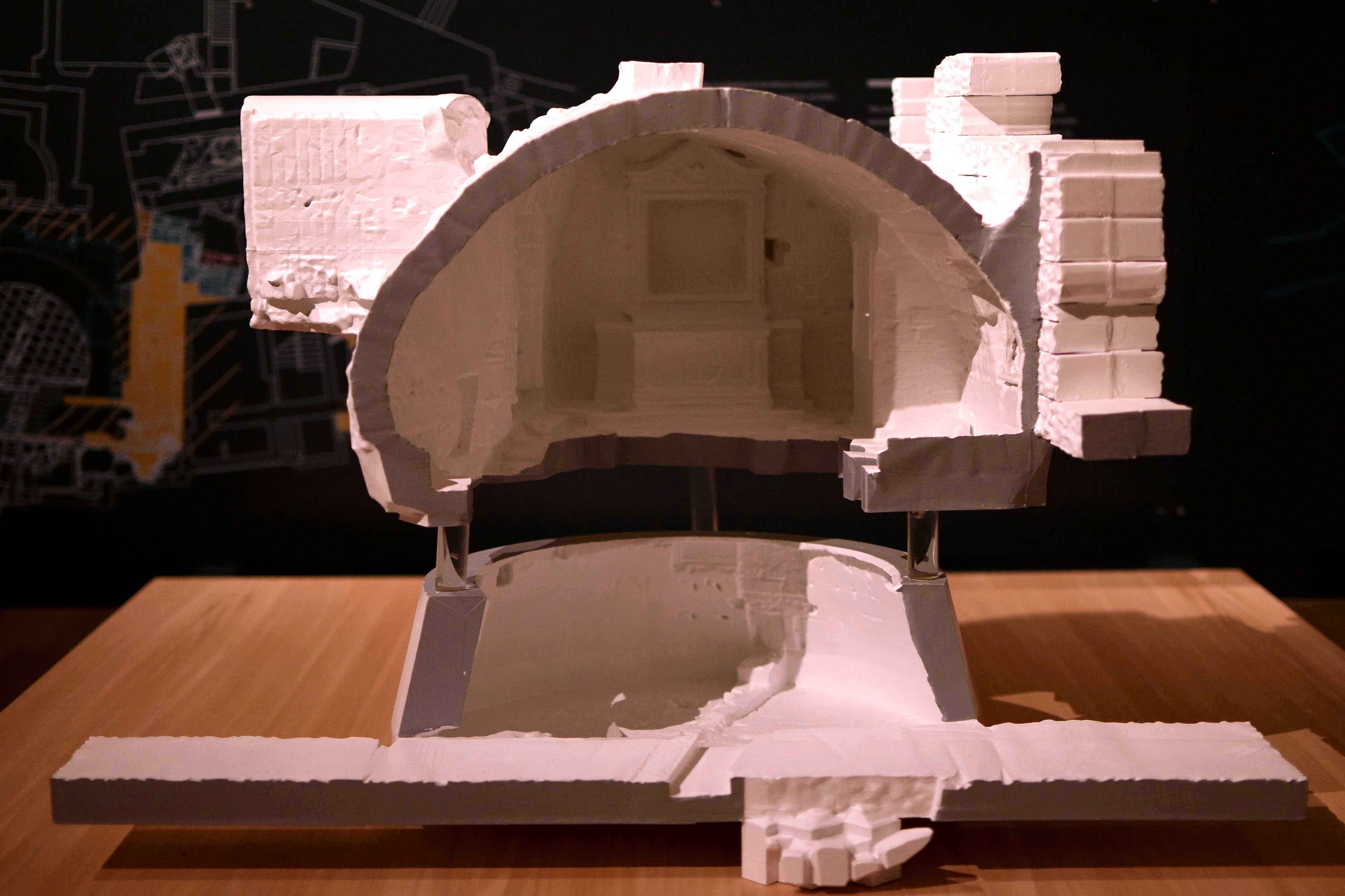 The Carcer-Tullianum consists of two Chambers. The carcer, the upper chamber and the Tullianum, the lower one. It was the place where Romans imprisoned enemies that had been sentenced to death.